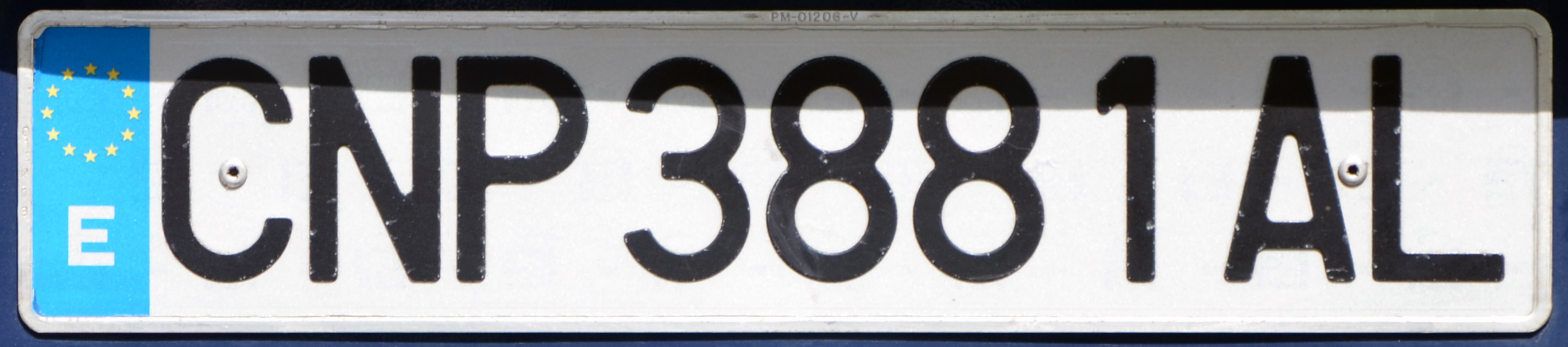 Registration plate of a vehicle of the spanish police (CNP = Cuerpo Nacional de Policía).